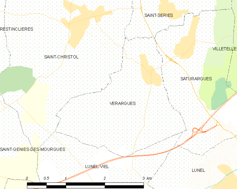 Map commune FR insee code 34330.png - Vérargues